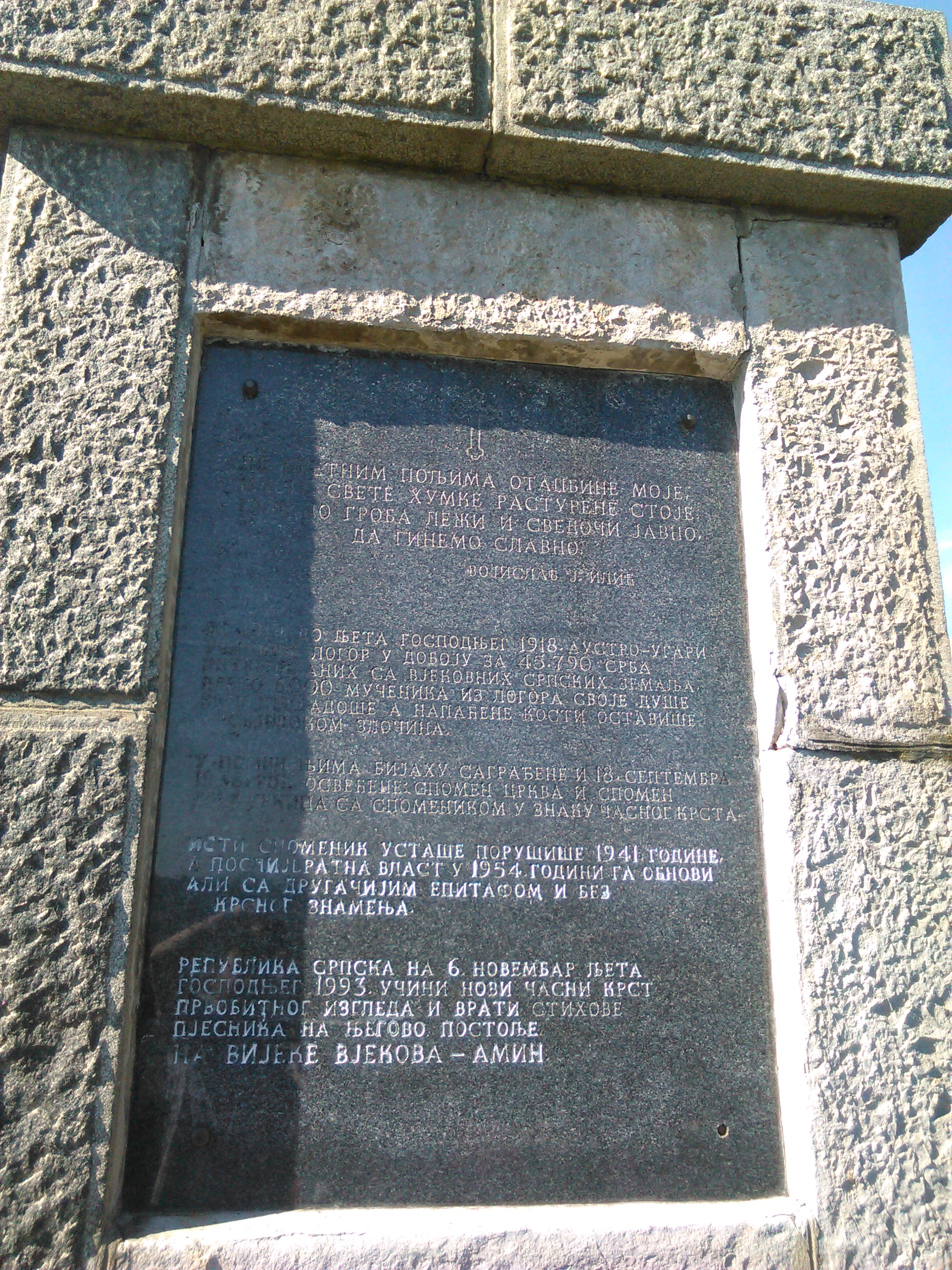 monument-doboj-concetration-camp-WWI